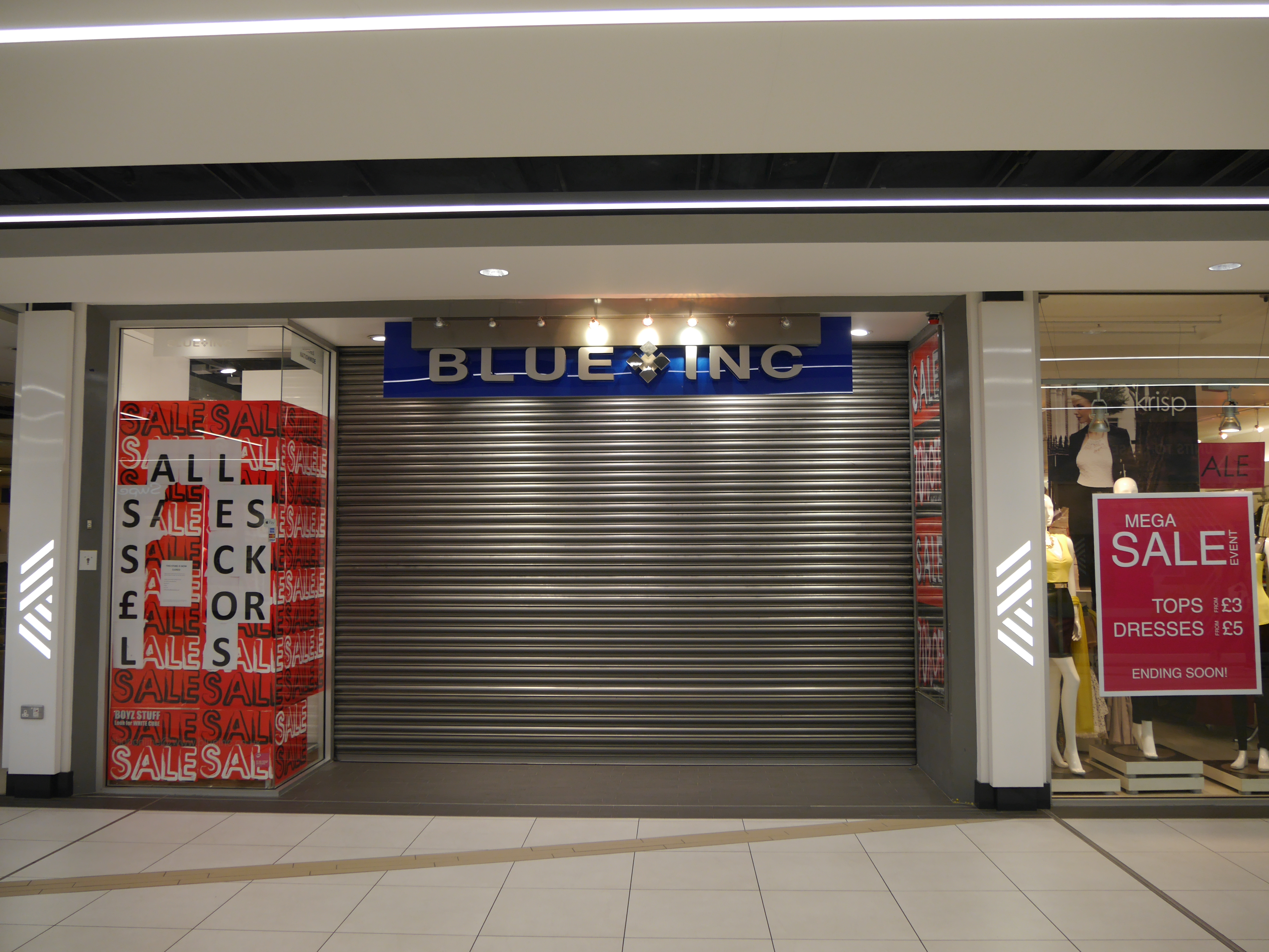 Blue Inc store in Kings Mall, Hammersmith. Sign in window indicates that "This store is now closed".